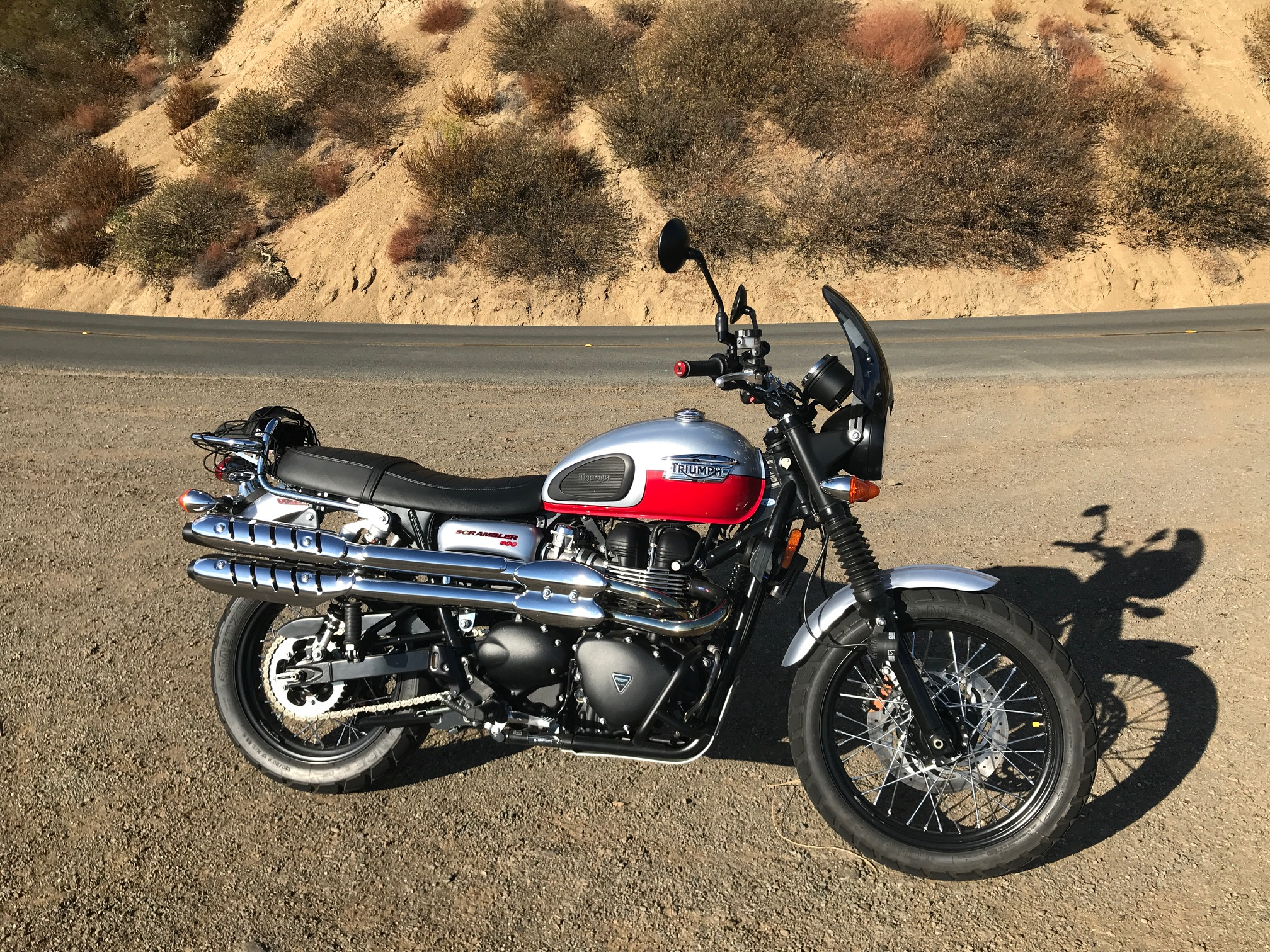 Example of modded Triumph Scrambler